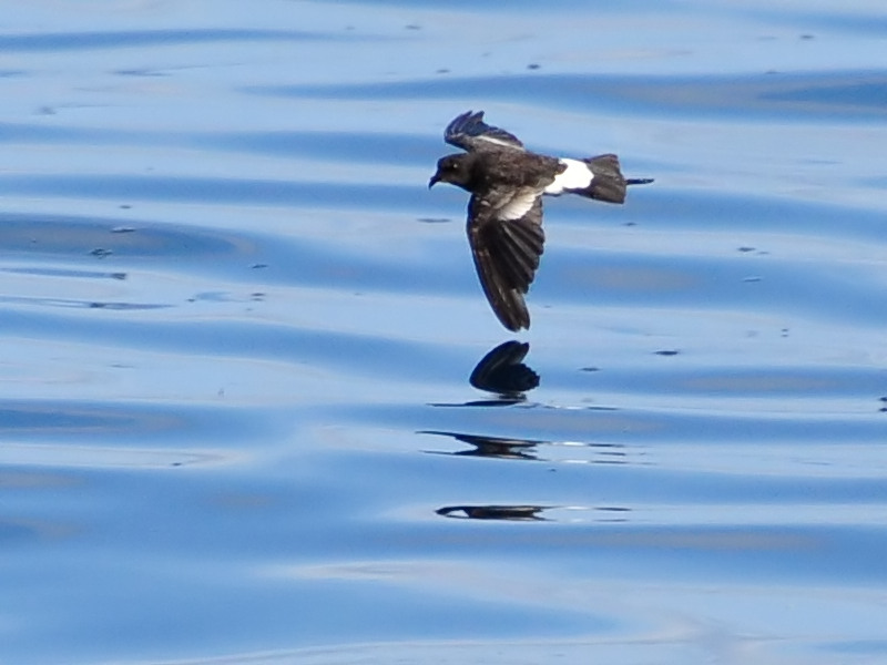 Oct 2011 Karnataka Pelagic Udupi, off Malpe coast shot around 50kms from coast